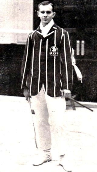 Guy Sautter, English-Swiss badminton and tennis player